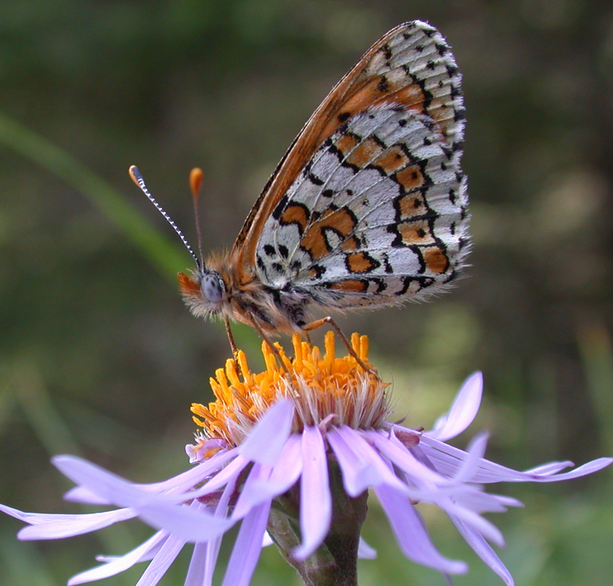 The Glanville fritillary butterfly (Melitaea cinxia).